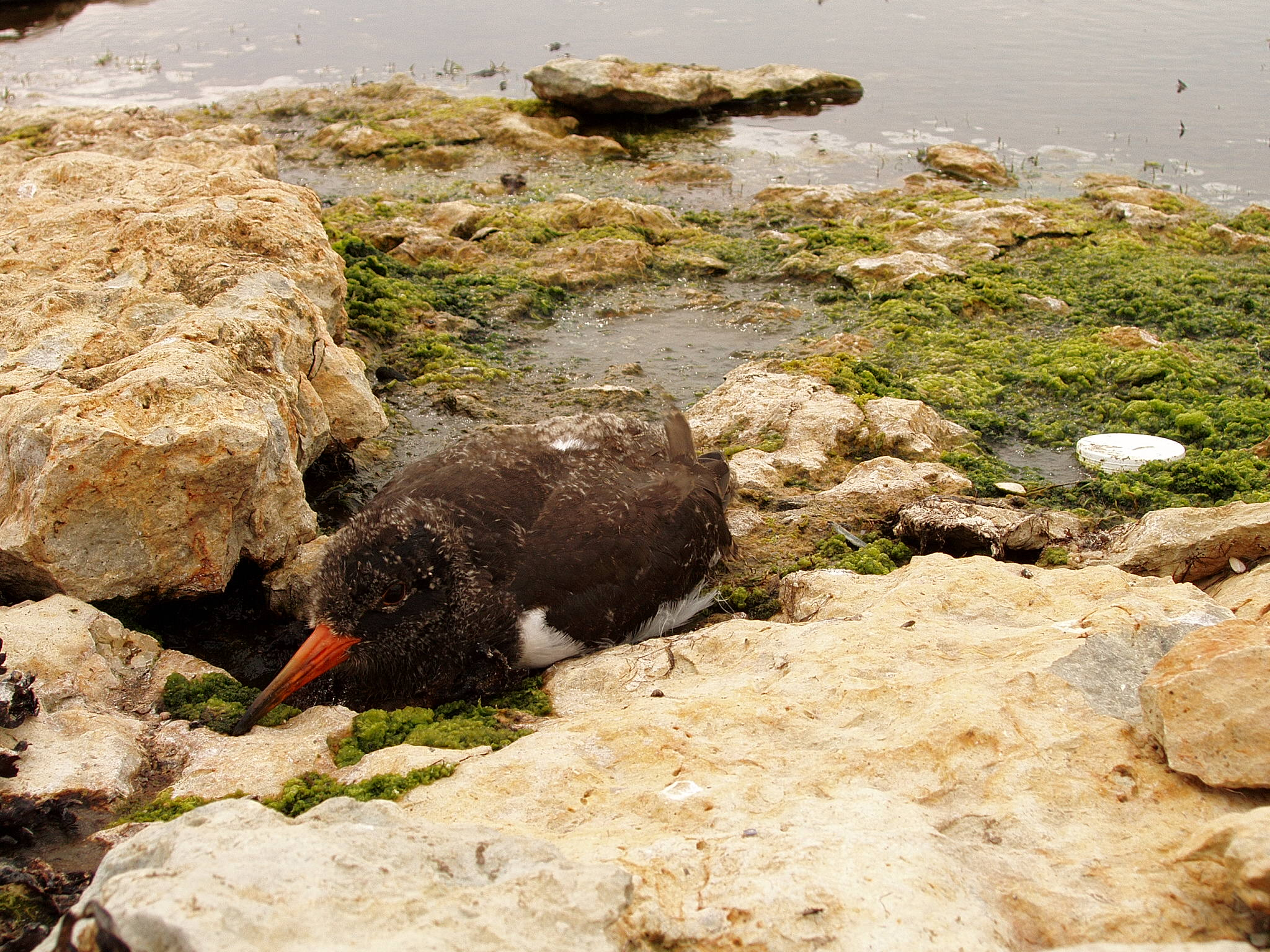 Young Eurasian Oystercatcher (Haematopus ostralegus). Picture is taken on Osmussaar, Estonia.